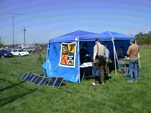 Solar-powered Amateur Radio Station in tents. Note the portable VHF/UHF Satellite and HF antennas in the background. Photo taken by the submitter, Gary Wilson